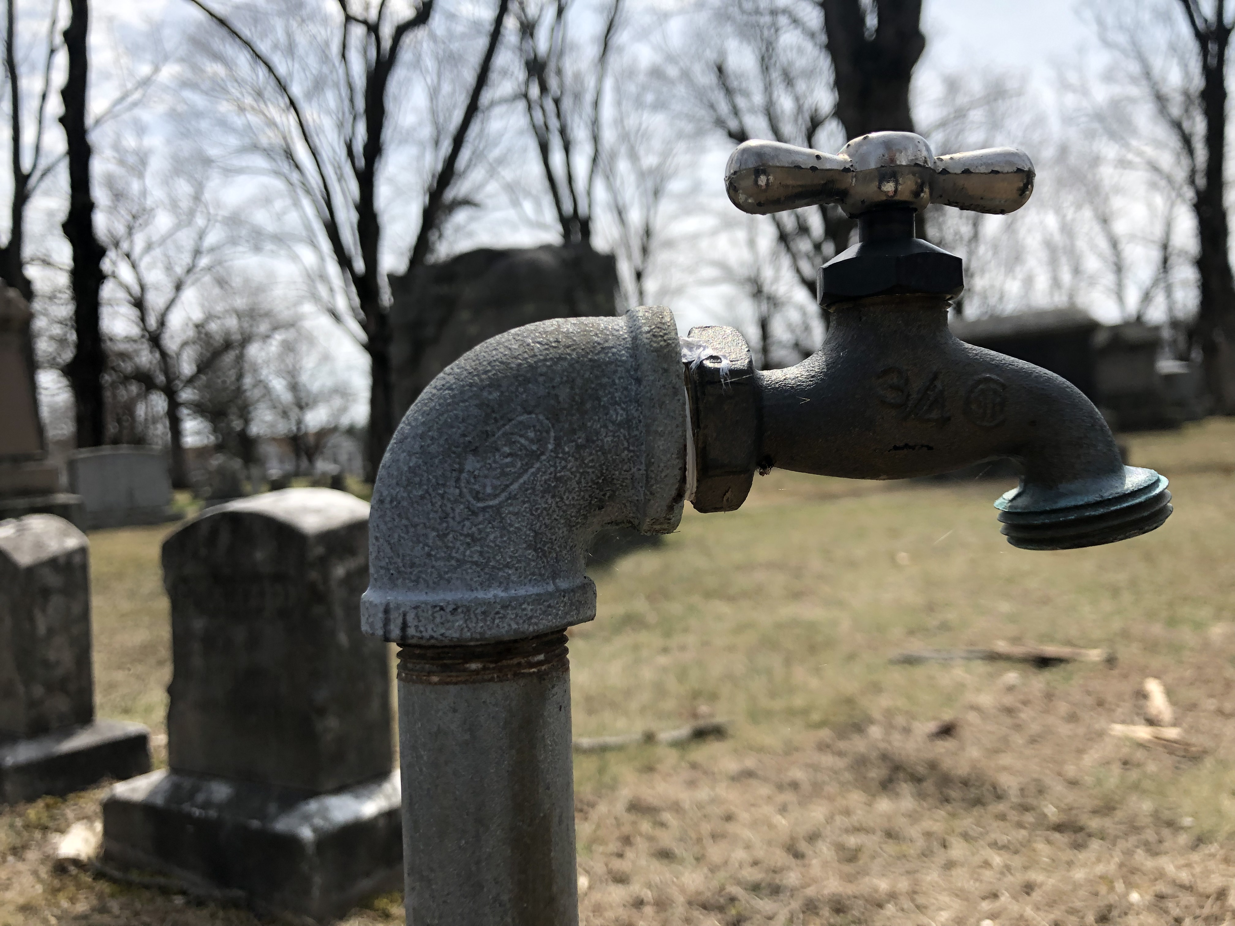 This is a outdoor water faucet/valve in Nashua, New Hampshire's Woodlawn Cemetery